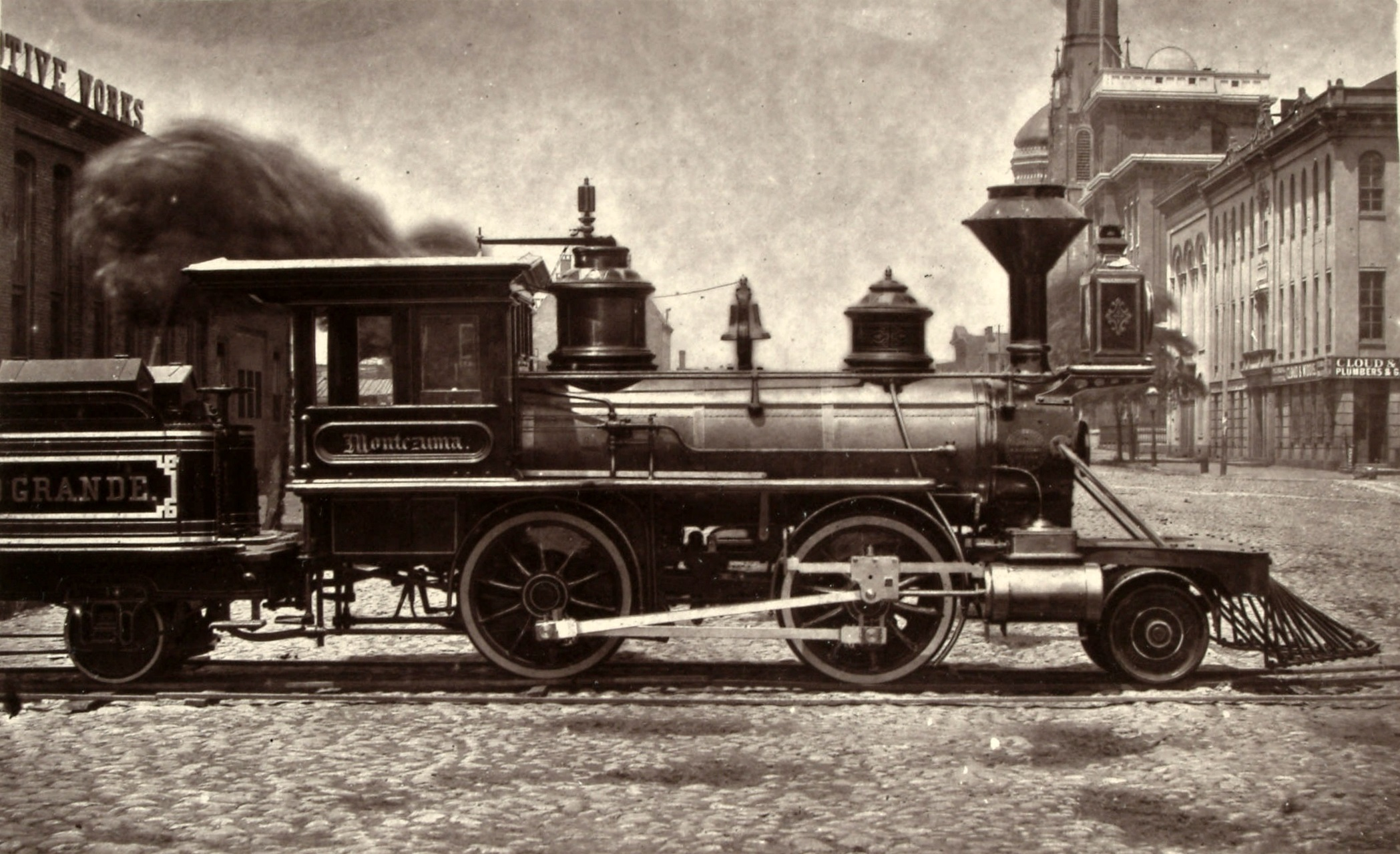 Woodburytype of photograph of Denver & Rio Grande Montezuma 2-4-0. This is the first locomotive built for the Denver & Rio Grande railroad. Located outside of Baldwin Locomotive Works, Philadelphia, PA. This is a retouched picture, which means that it has been digitally altered from its original version. Modifications: cropped, minor contrast adjustment.